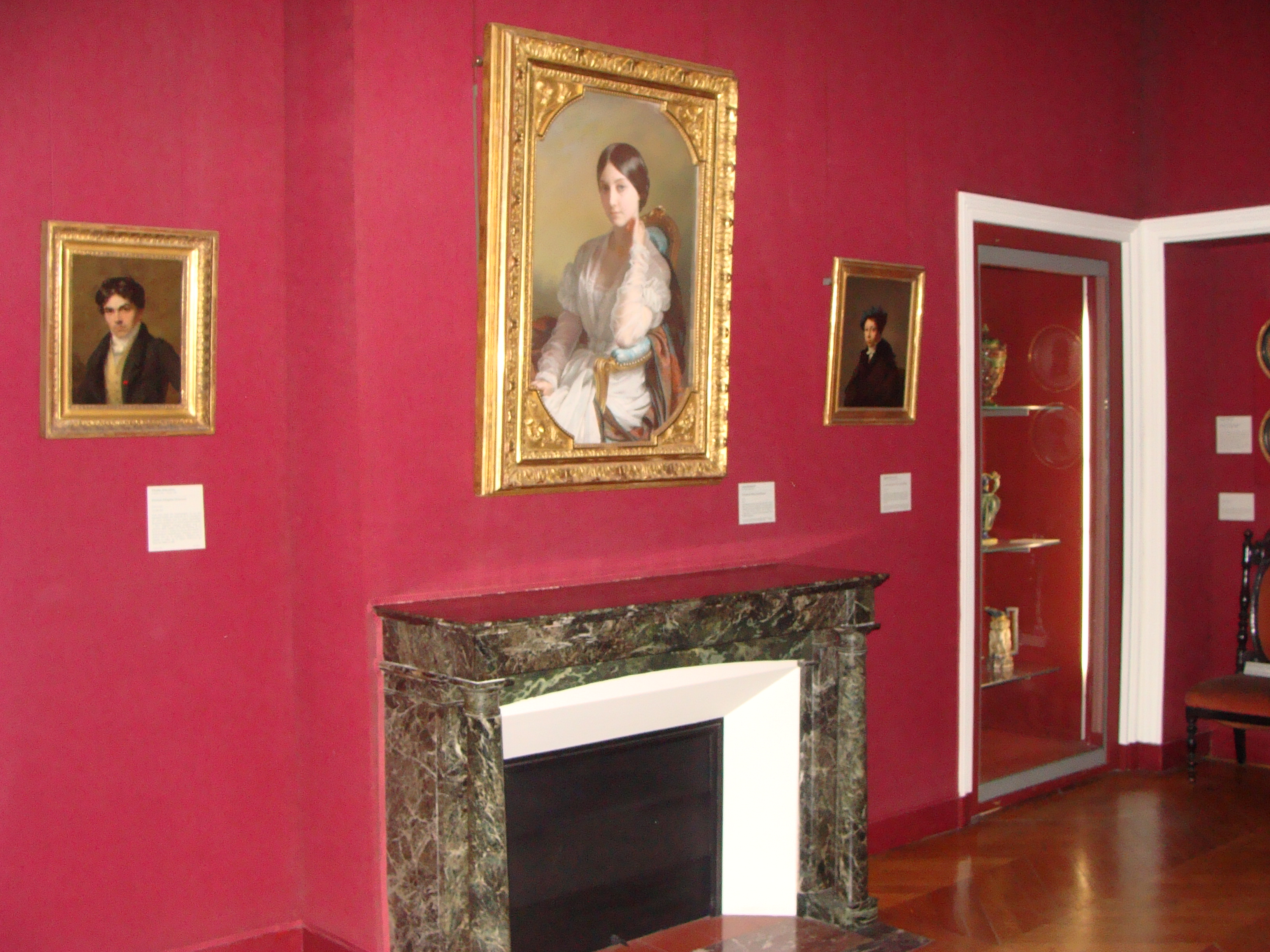 Delacroix Museum in Paris, view of the Bedroom